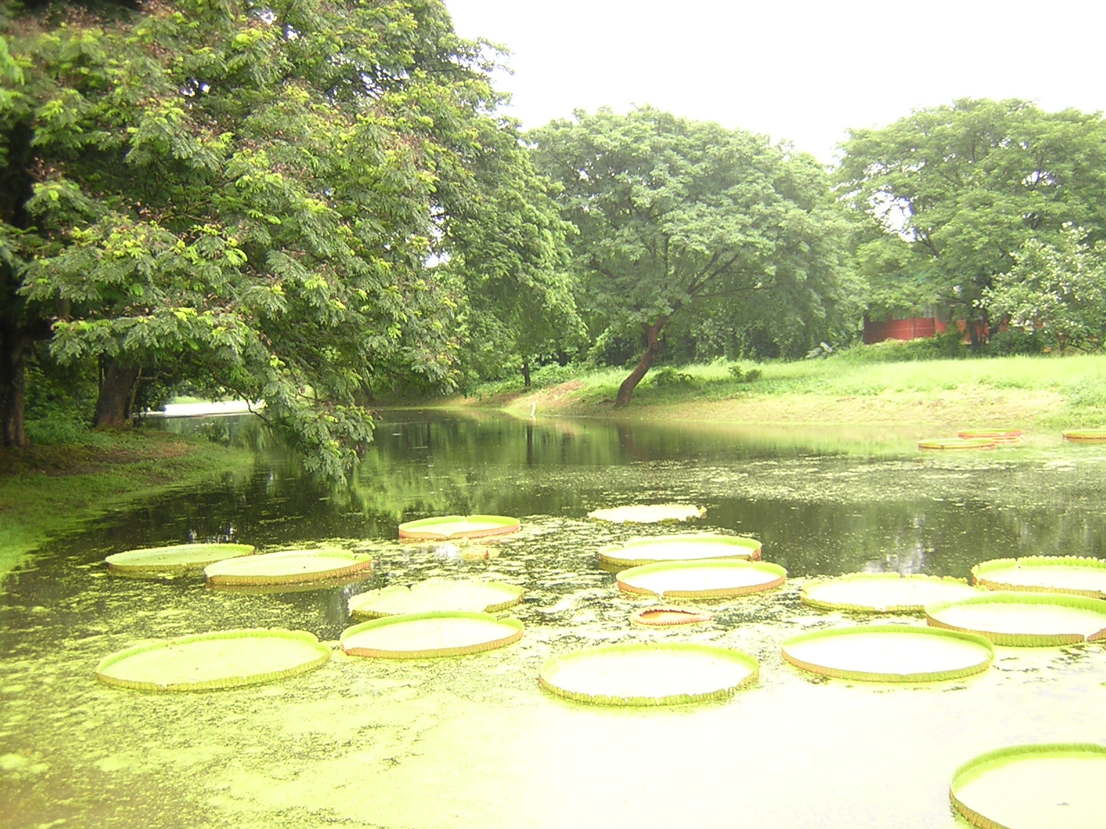 I took the picture in the summer 2005. The water body in the picture is one of the numerous examples in the botanics. The lily flowers in the picture are the so called Australian lily, which has huge leaves and beautiful flowers. Please use the picture only for wiki related usage.